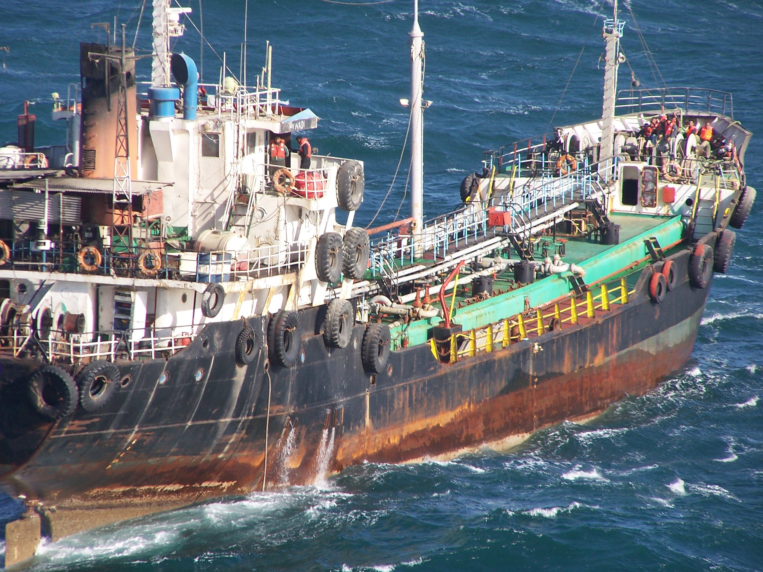 MV Nadi, a North Korean-flagged coastal tanker with 10 Iraqi crew members, takes on water one week after the vessel lost power. Military Sealift Command dry cargo/ammunition ship USNS Sacagawea rescued Nadi’s crew Feb. 22.